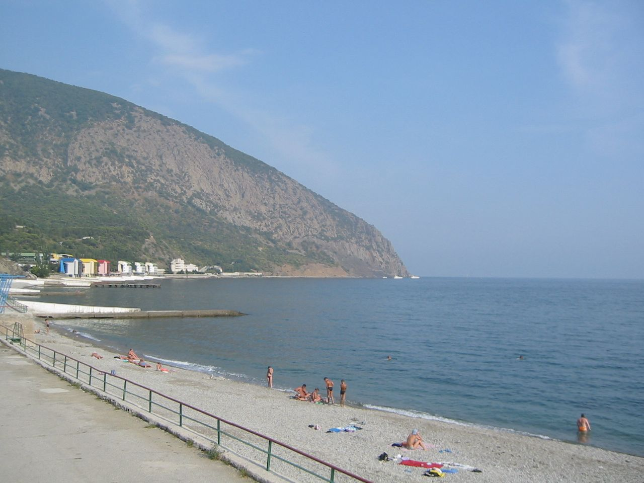 The view of Ayu-Dag (Bear Mountain), a landmark familiar to anyone who had ever visited Crimea. I like it in any weather. It is naturally erupted volcanic mountain. The mountain has proven to be 'magical' and produced many legends over time.